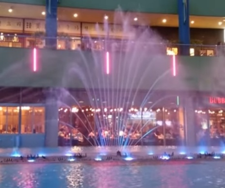 Waltzing water